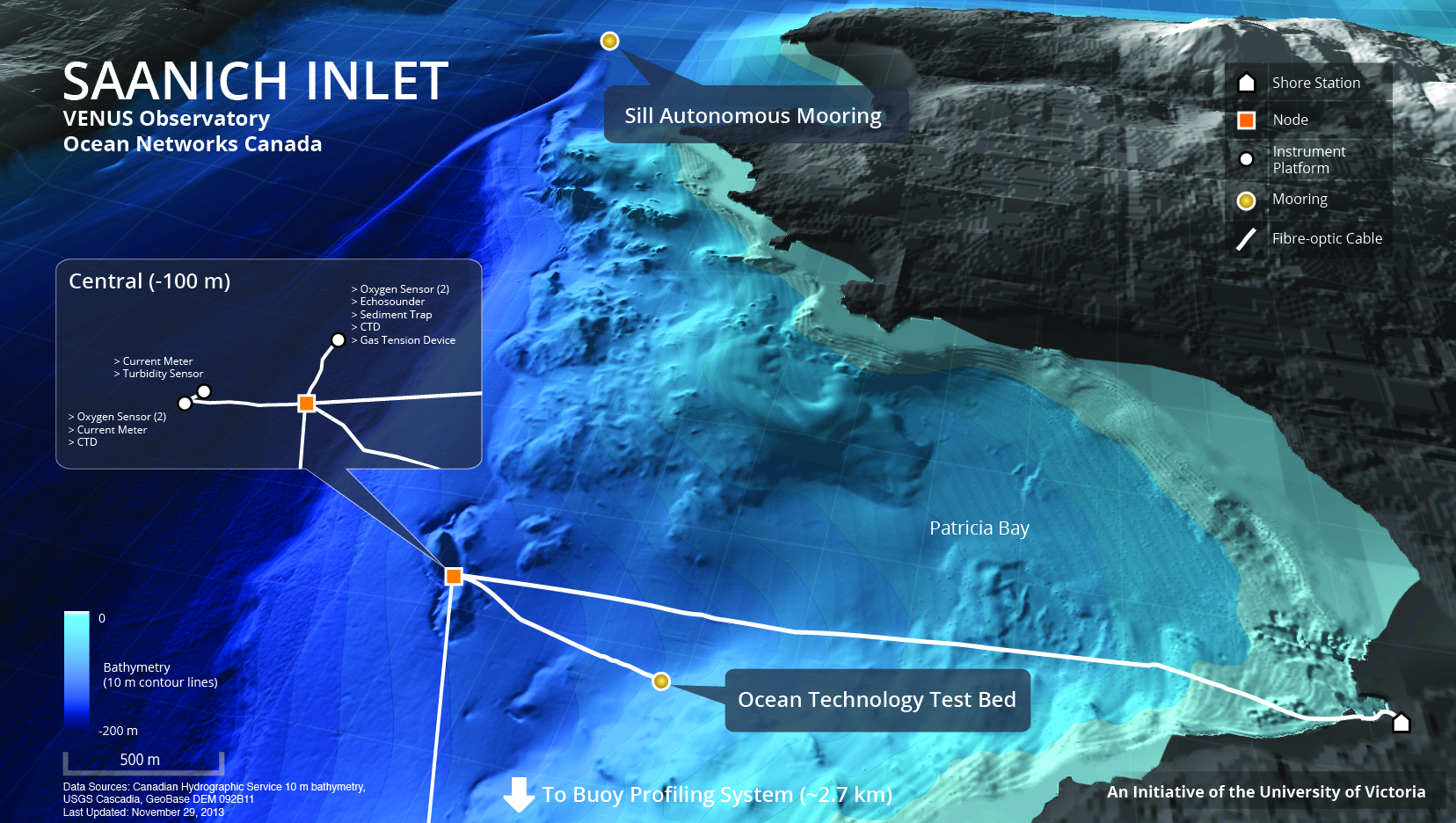 2013 map of Ocean Networks Canada installations in Saanich Inlet between Sidney and Mill Bay, BC, on the east coast of Vancouver Island. This is one of the sites on the VENUS observatory. The University of Victoria's Ocean Technology Test Bed is located here as well.